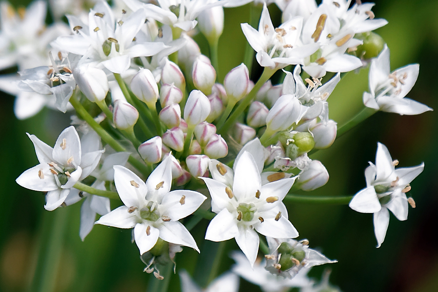 Allium tuberosum, or garlic chives, oriental garlic, Asian chives, Chinese chives and Chinese leek, in the Walled Garden of Goodnestone Park at Goodnestone, in the Dover District of Kent, England.Camera: Canon EOS 6D with Canon EF 24-105mm F4L IS USM lens.Software: RAW file lens-corrected, optimized, perhaps cropped, and converted to JPEG with DxO OpticsPro 11 Elite, and likely further optimized with Adobe Photoshop CS2.